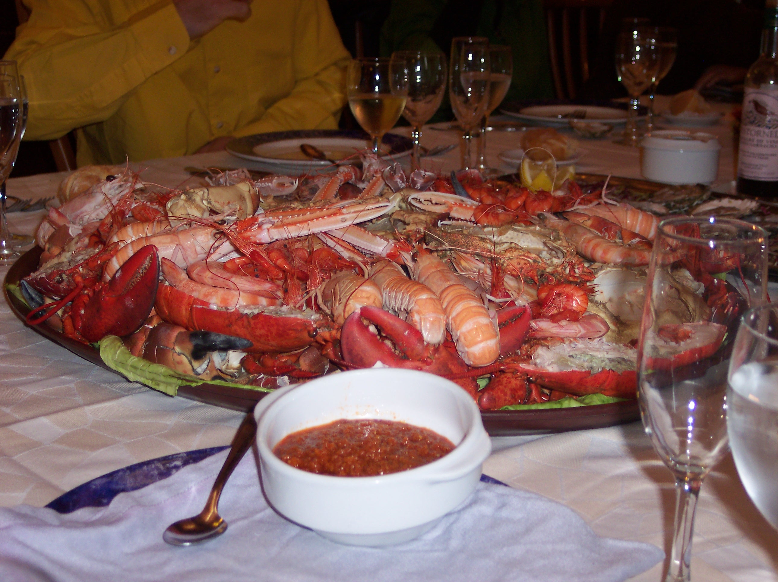 A authentic "Mariscada" from Galicia